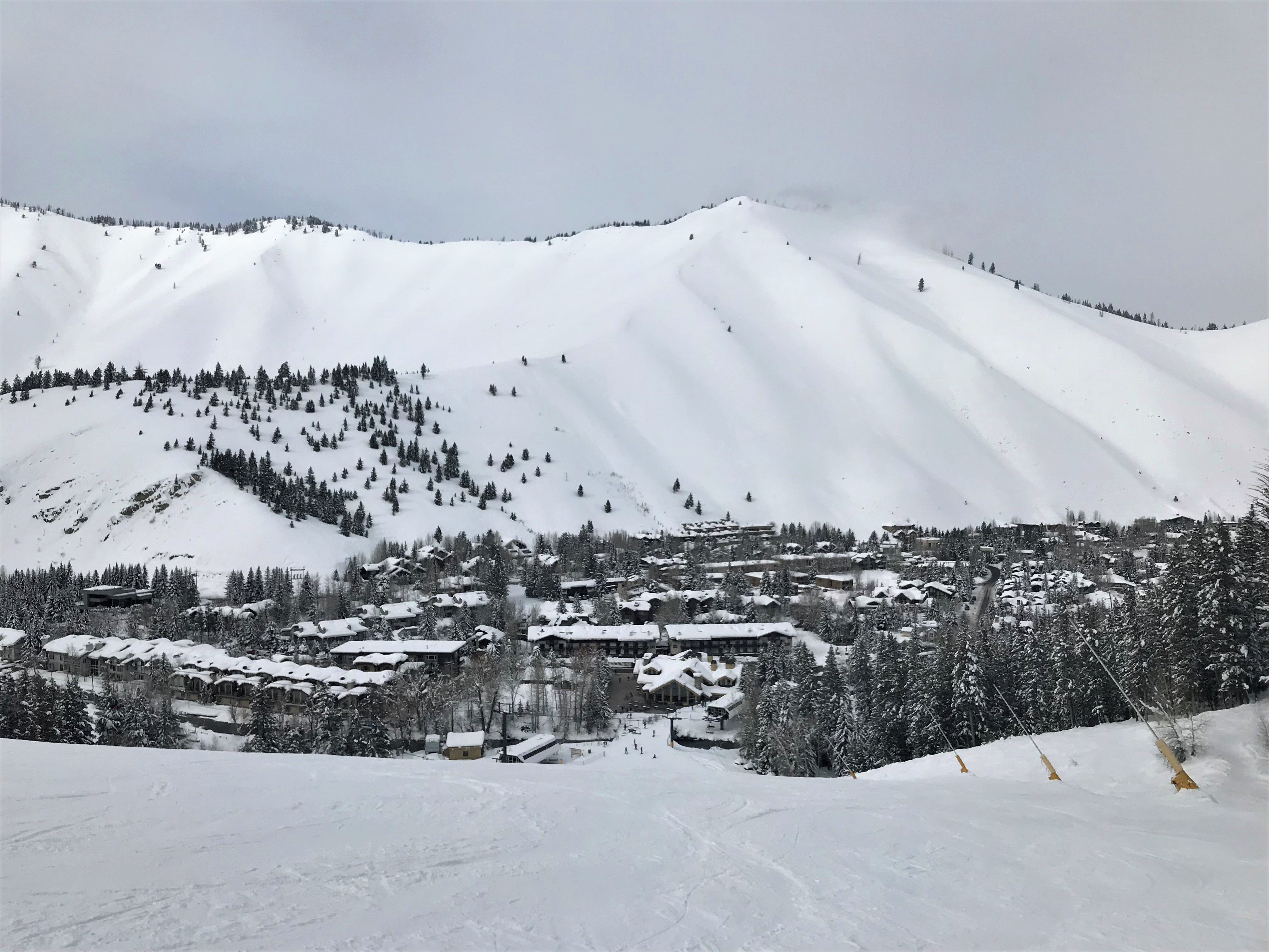 This photo is of Warm Springs ski run on Bald Mountain, home to the U.S. Championships in 2018.